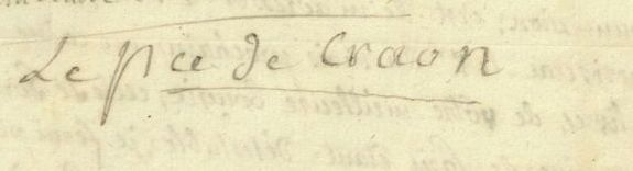 1786 signature of Charles Juste de Beauvau, "Prince of Craon"